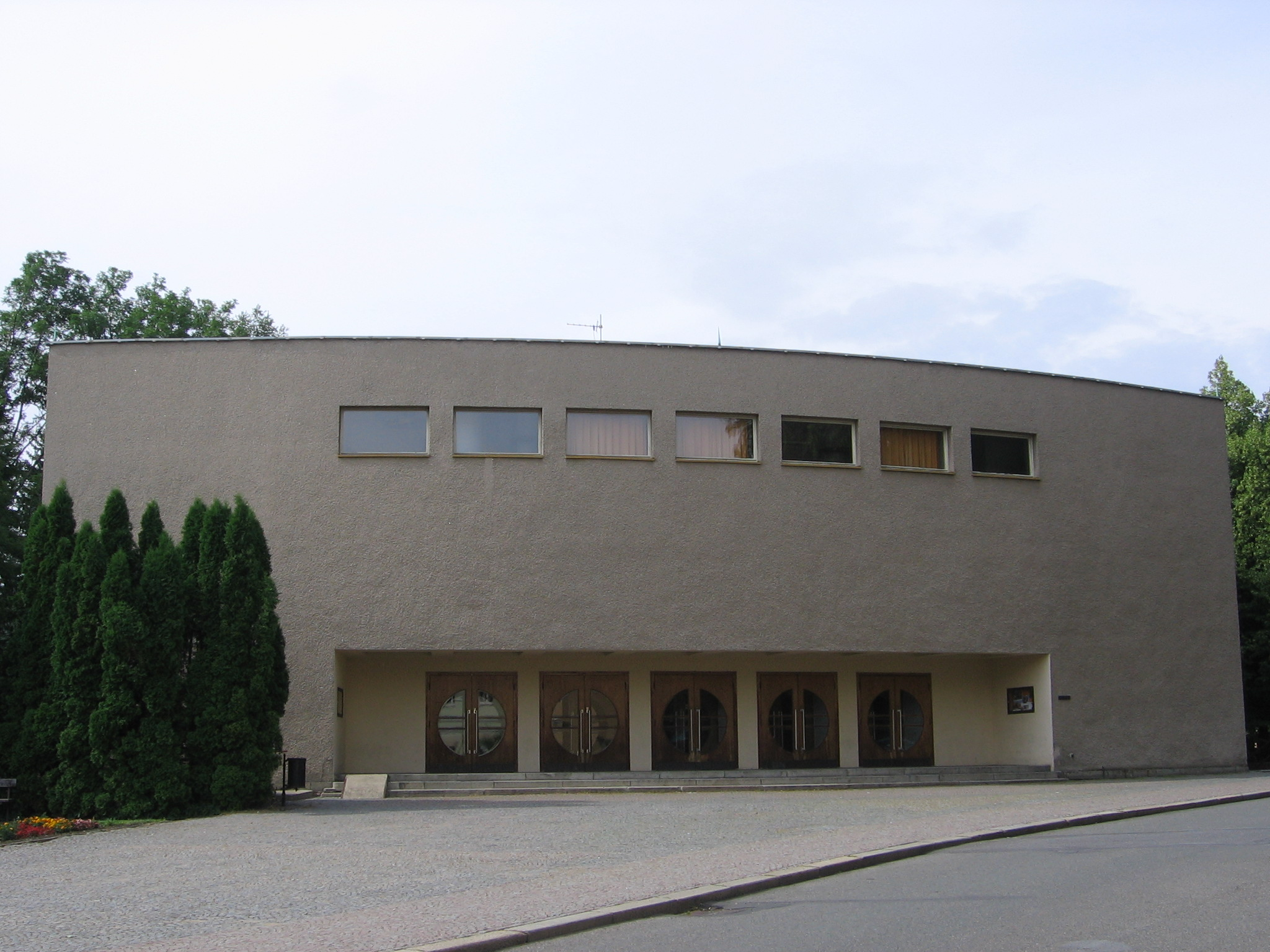 Roškot's Theatre in Ústí nad Orlicí (Czech Republic)